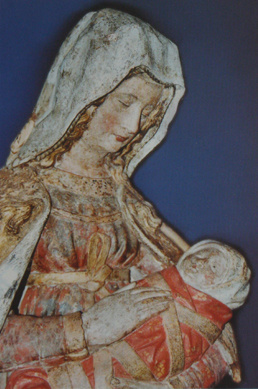 Vierge d'Autun, 15e century, Musée Rolin (Autun, France)